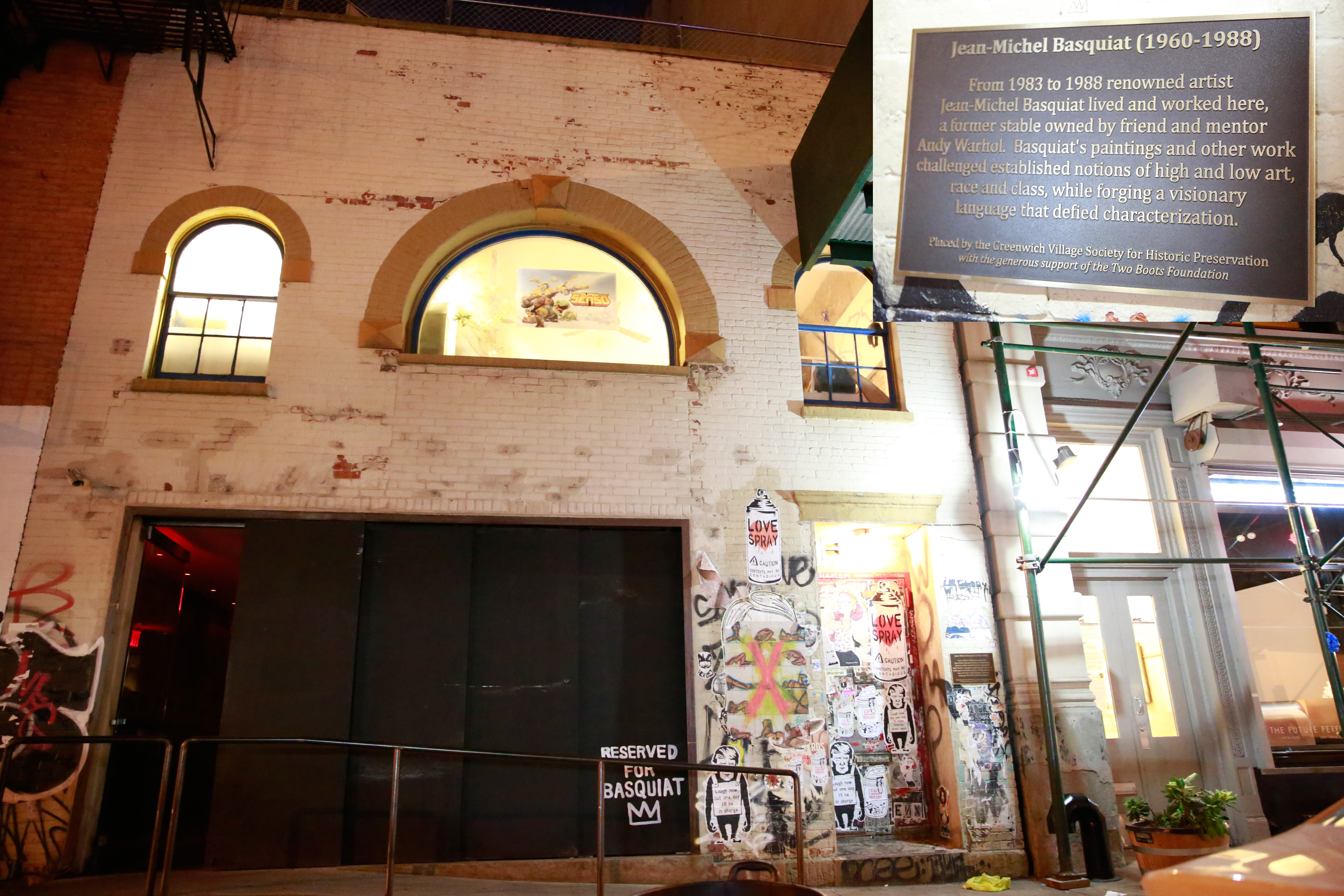 Jean-Michel Basquiat (1960-1988) home on 57 Great Jones Street where he lived 1983-1988, with recent plaque dedicating this historic event.